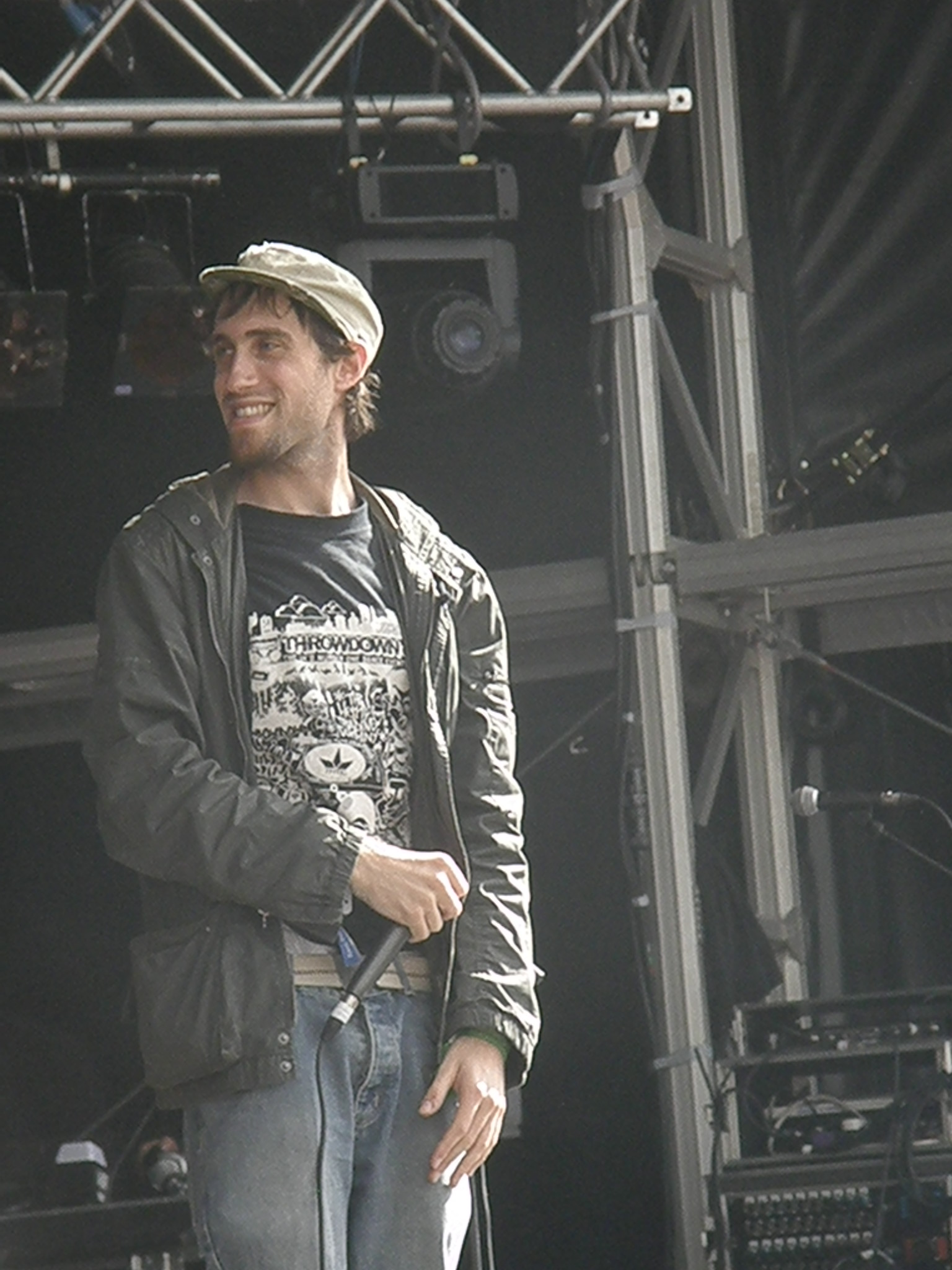 Beardyman at Camp Bestival 2008